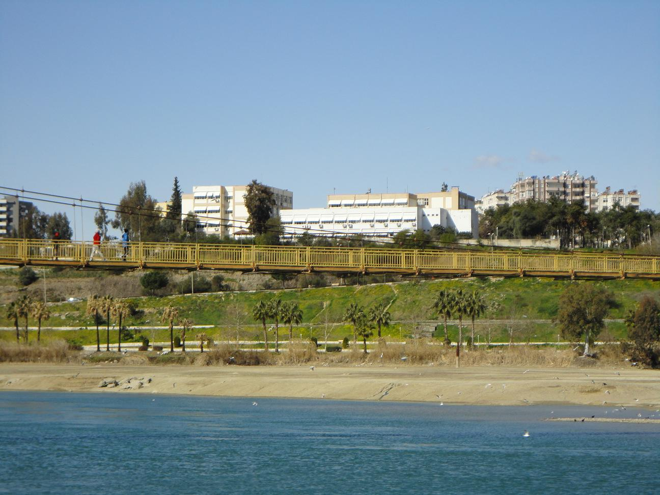 Çukurova University Beyazevler Campus in Adana